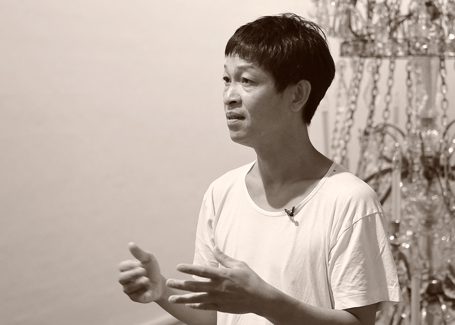 Danh Vō - Vietnamese-Danish performance art inspired conceptual artist - from exhibition at National Gallery of Denmark, Copenhagen, Denmark - August 2018